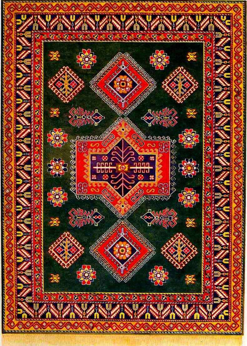 Denirchiler rug Kazakh schaool, XIX c.